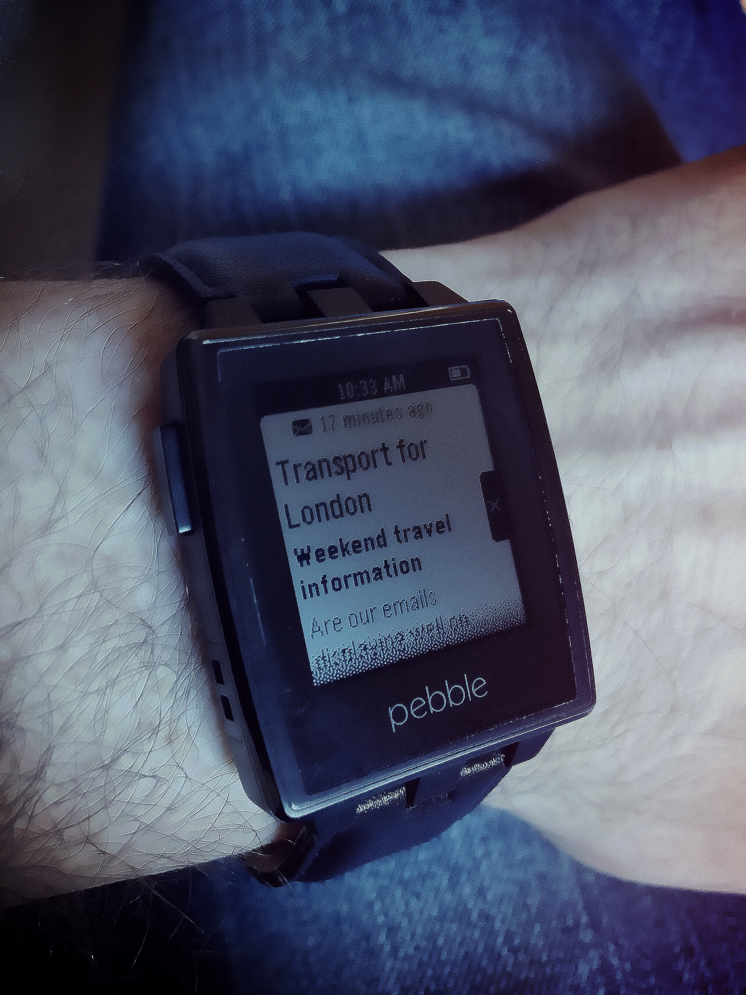 Pebble Steel on a wrist, email notification on the screen (firmware v2.9.1).